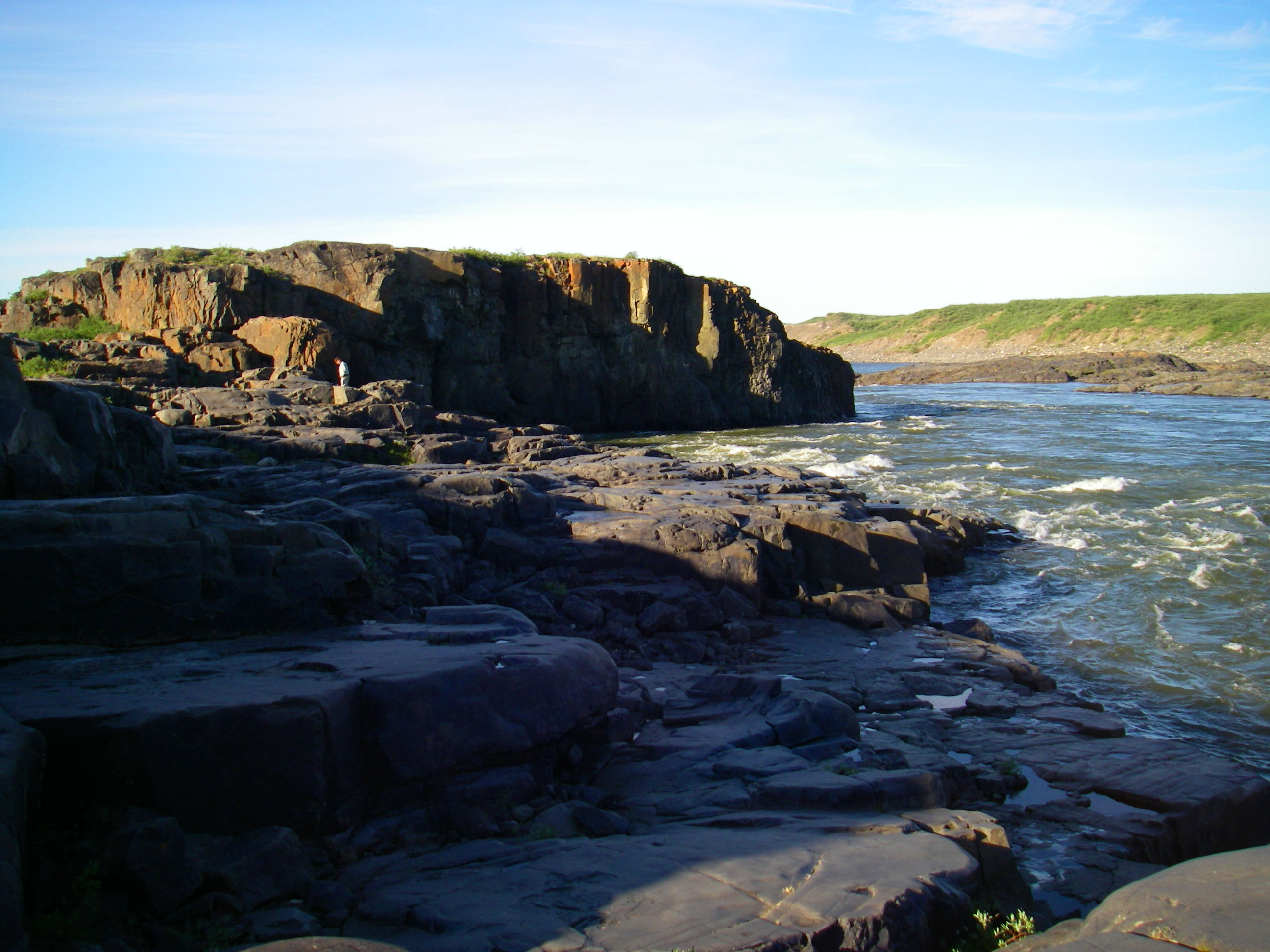 Middle of Blood Falls rapids, Nunavut, Canada